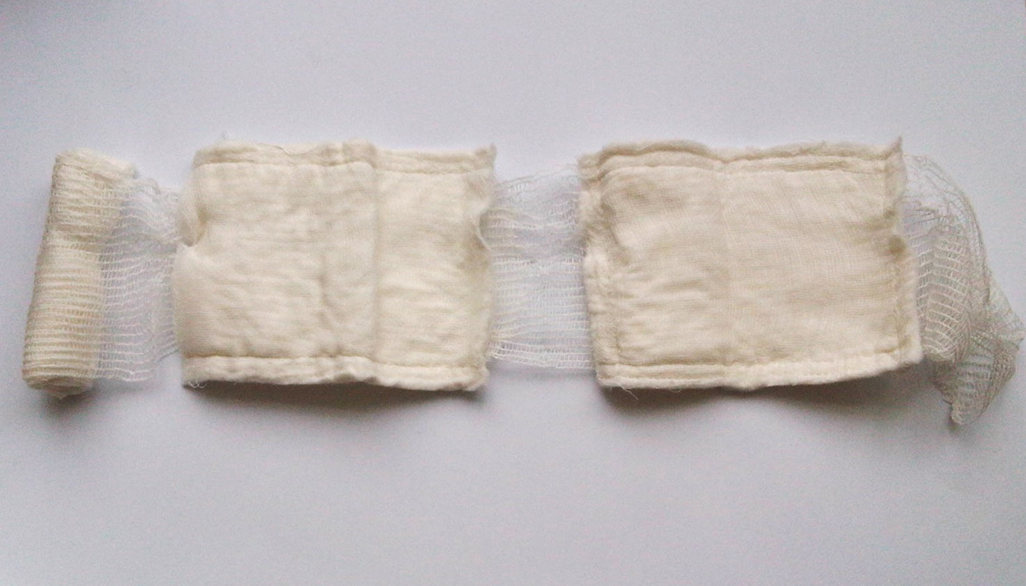 Individual dressing of W "small" type - product